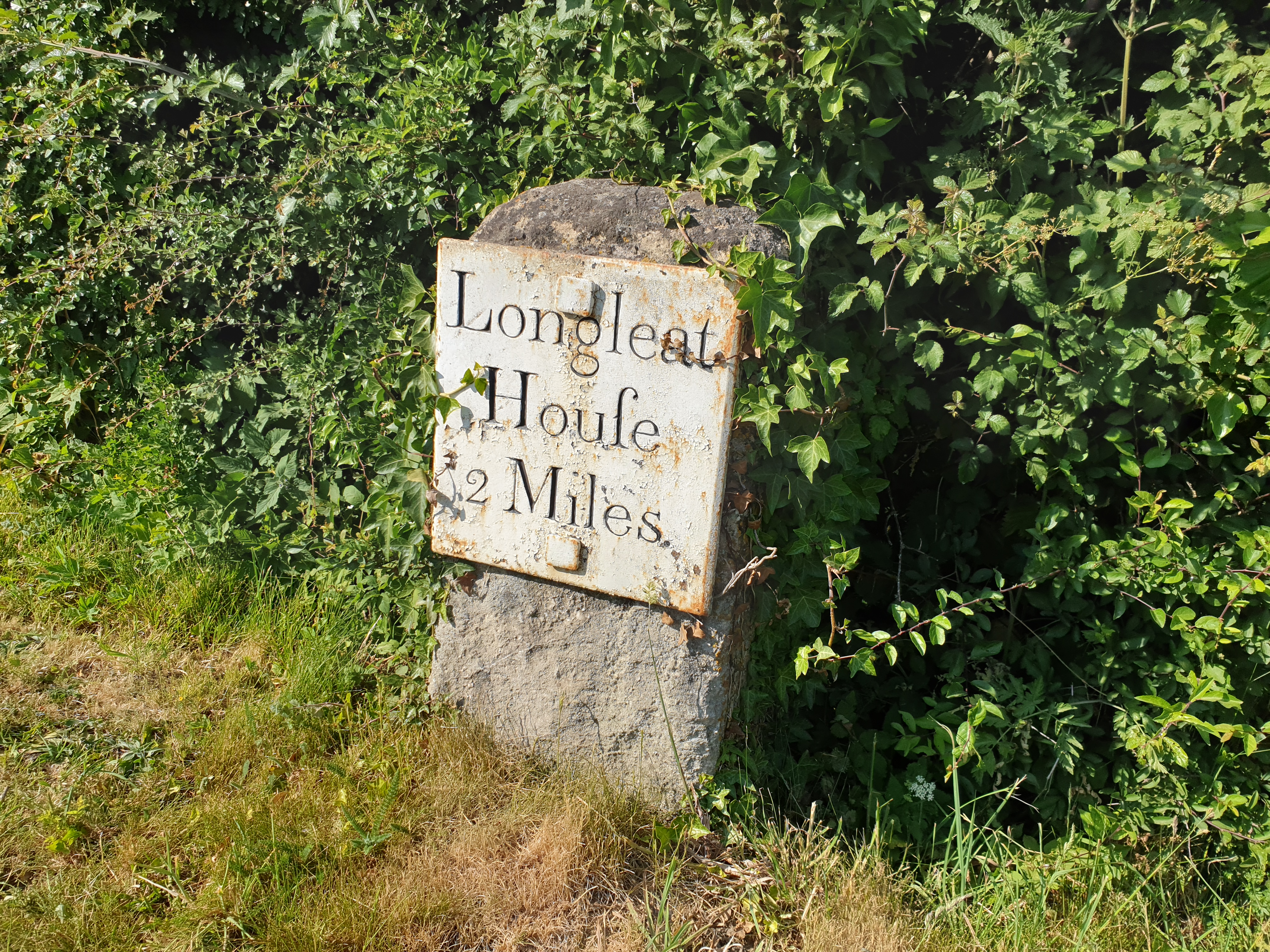 Milestone at East Woodlands, near the toll house. Taken on 29th May 2020